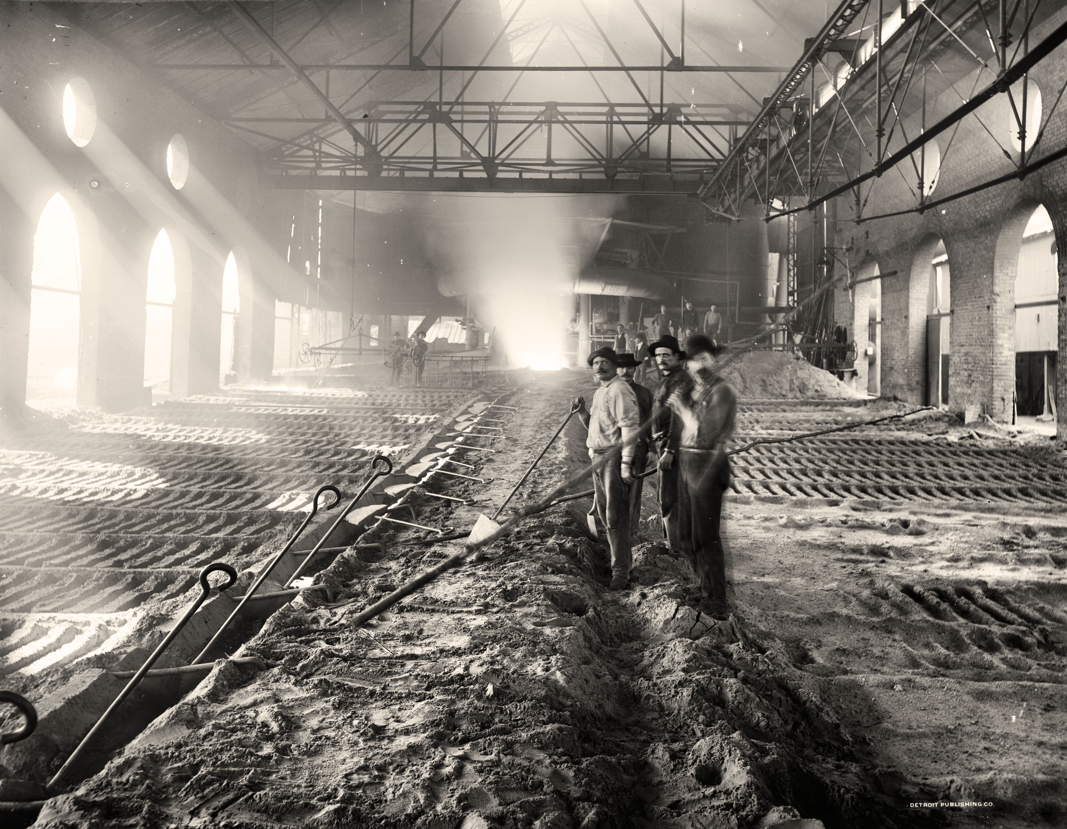 Title: Casting pig iron, Iroquois smelter, Chicago Related Names: Detroit Publishing Co. , publisher Date Created/Published: [between 1890 and 1901] Medium: 1 negative : glass ; 8 x 10 in. Reproduction Number: LC-D401-12557 (b&w film copy neg.) Call Number: LC-D4-12557 [P&P] Repository: Library of Congress Prints and Photographs Division Washington, D.C. 20540 USA Notes: Date based on Detroit, Catalogue J (1901). Detroit Publishing Co. no. 012557. Gift; State Historical Society of Colorado; 1949. Subjects: Industrial facilities. Interiors. Iron industry. United States--Illinois--Chicago. Format: Dry plate negatives. Collections: Detroit Publishing Company